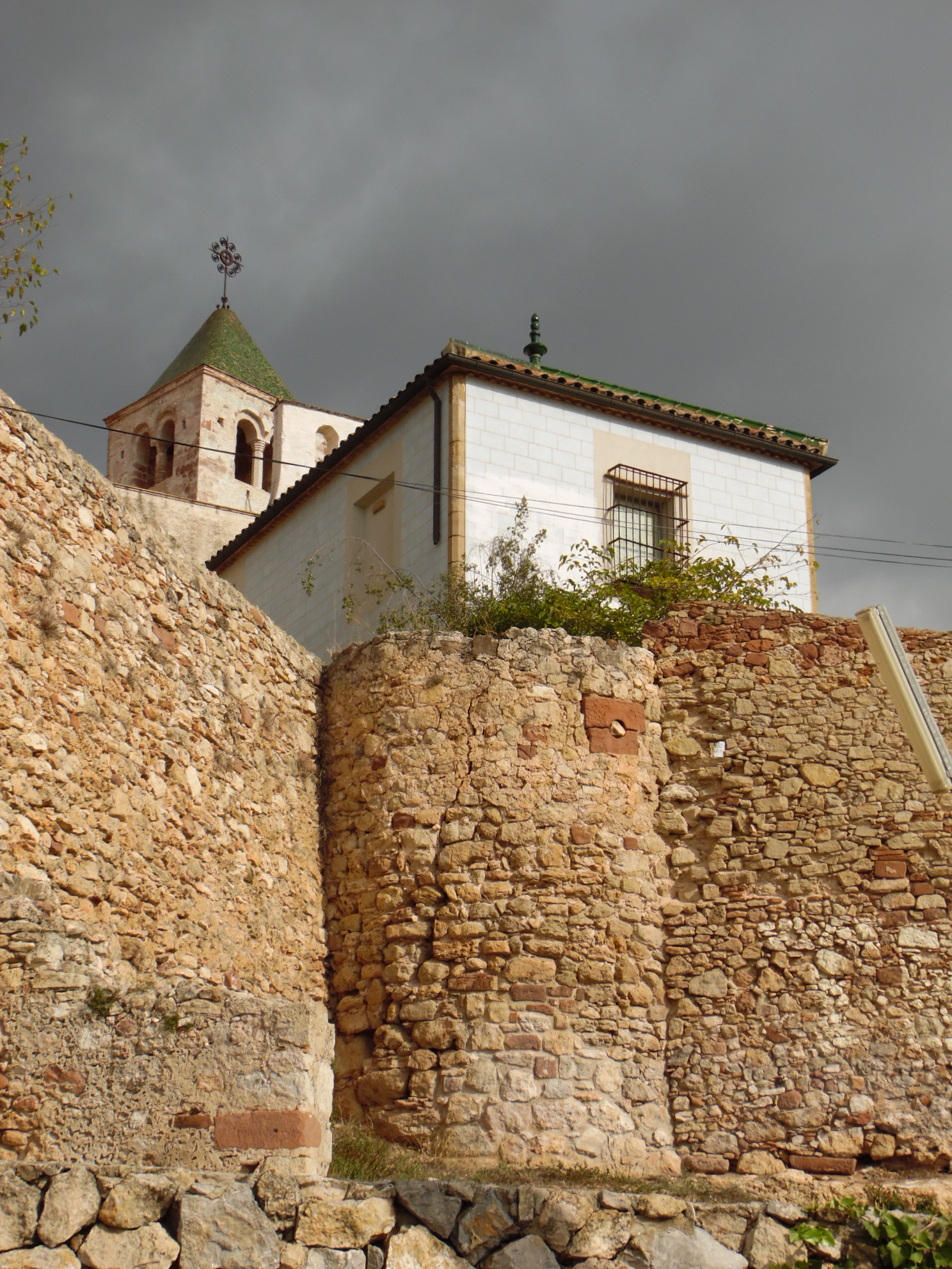 The castle of Castelldefels, Catalonia, Spain.